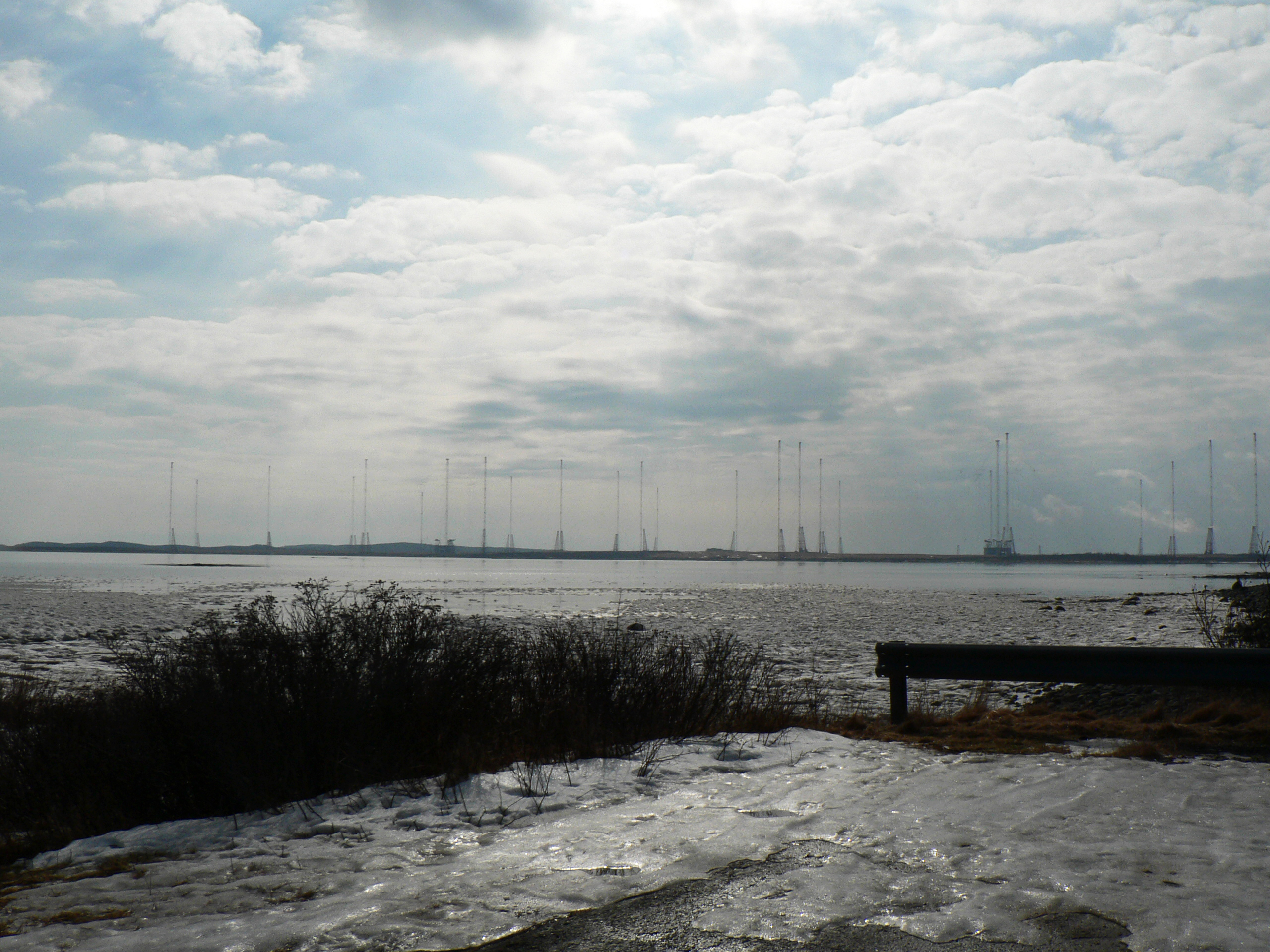 US Navy Cutler VLF Transmitter facility, Maine, as seen from across the Little Machias Bay of a distance of about 2 miles. It transmits operational orders one-way to submerged submarines worldwide at a frequency of 24 kHz with a power of 1.8 megawatts, and was at one time the most powerful radio station in the world. This type of antenna is called a trideco or umbrella antenna, a form of capacitively top-loaded monopole antenna. It consists of an array of 13 vertical steel masts attached at the top to a system of horizontal cables like an 'umbrella". The cables are divided into 6 "panels" which radiate out from the central tower in a pattern resembling a snowflake. The central mast is 979 ft (298 meters) tall, and the entire array is 6140 ft (1.871 km or 1.16 miles) in diameter. The central mast actually radiates the VLF radio waves, while the top cables form a large capacitor with the ground, which serves to increase the efficiency of the antenna. Under each mast there is also a system of cables suspended a few feet above the ground radiating from the mast base, called a counterpoise (not shown) which functions as the other plate of the capacitor.